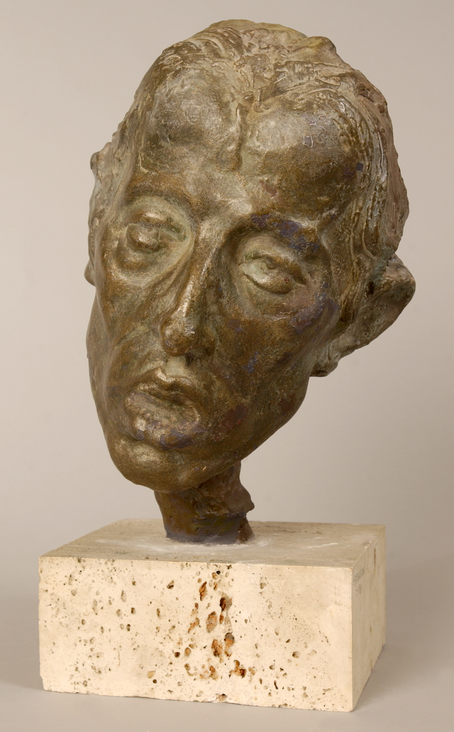 La Schema - early work of Mario Bernasconi that helped him attain government sponsorship and scholarship. Photograph contributed by its owner Claudia Esponsito Bernasconi who has released it to Creative Commons.